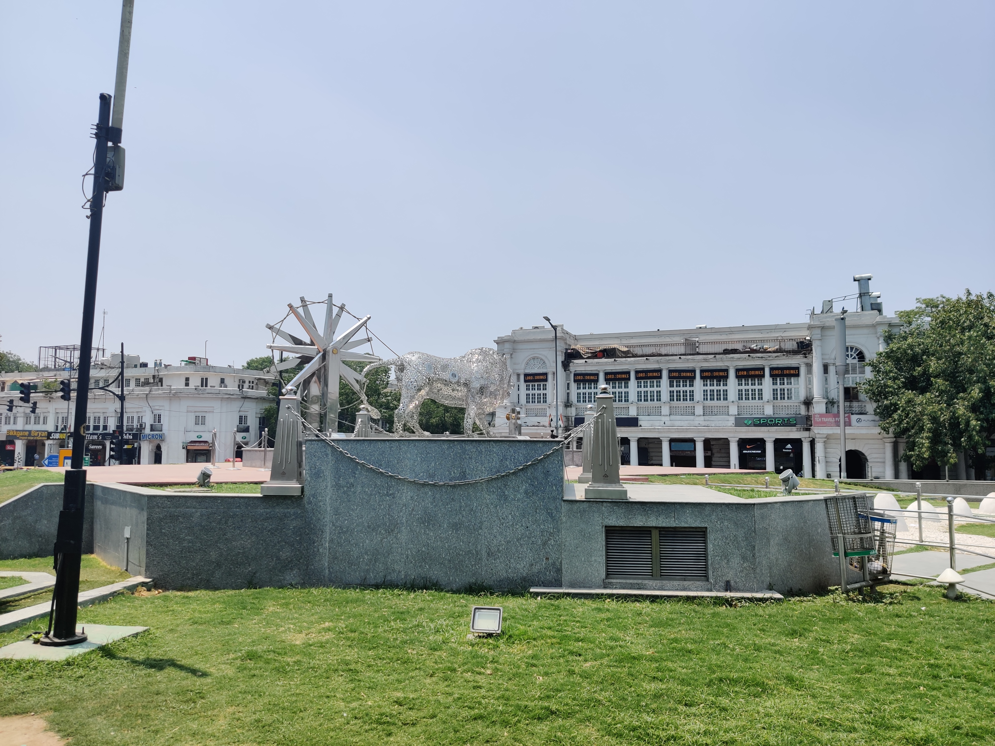 Front view showing the silver Charkha